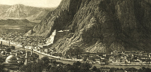 Amasia Ottoman era